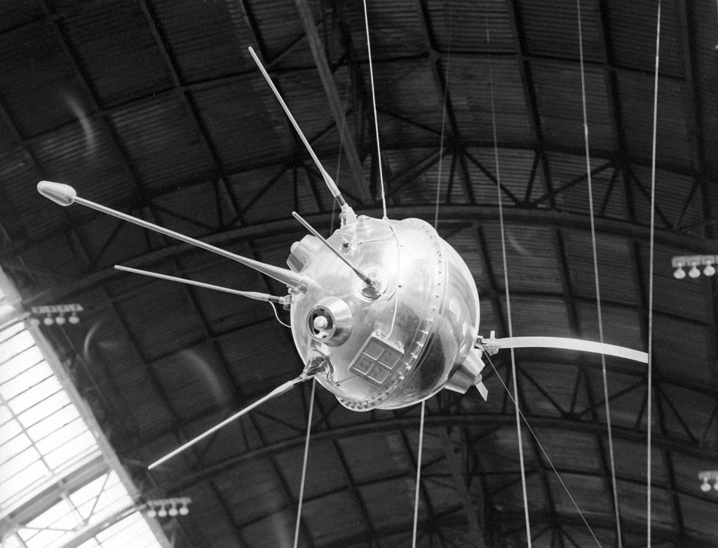 “Pavilion "Kosmos" at VDNKh”. Pavilion "Kosmos" at the Exhibition of Achievements of National Economy. Luna 1 Soviet interplanetary station.